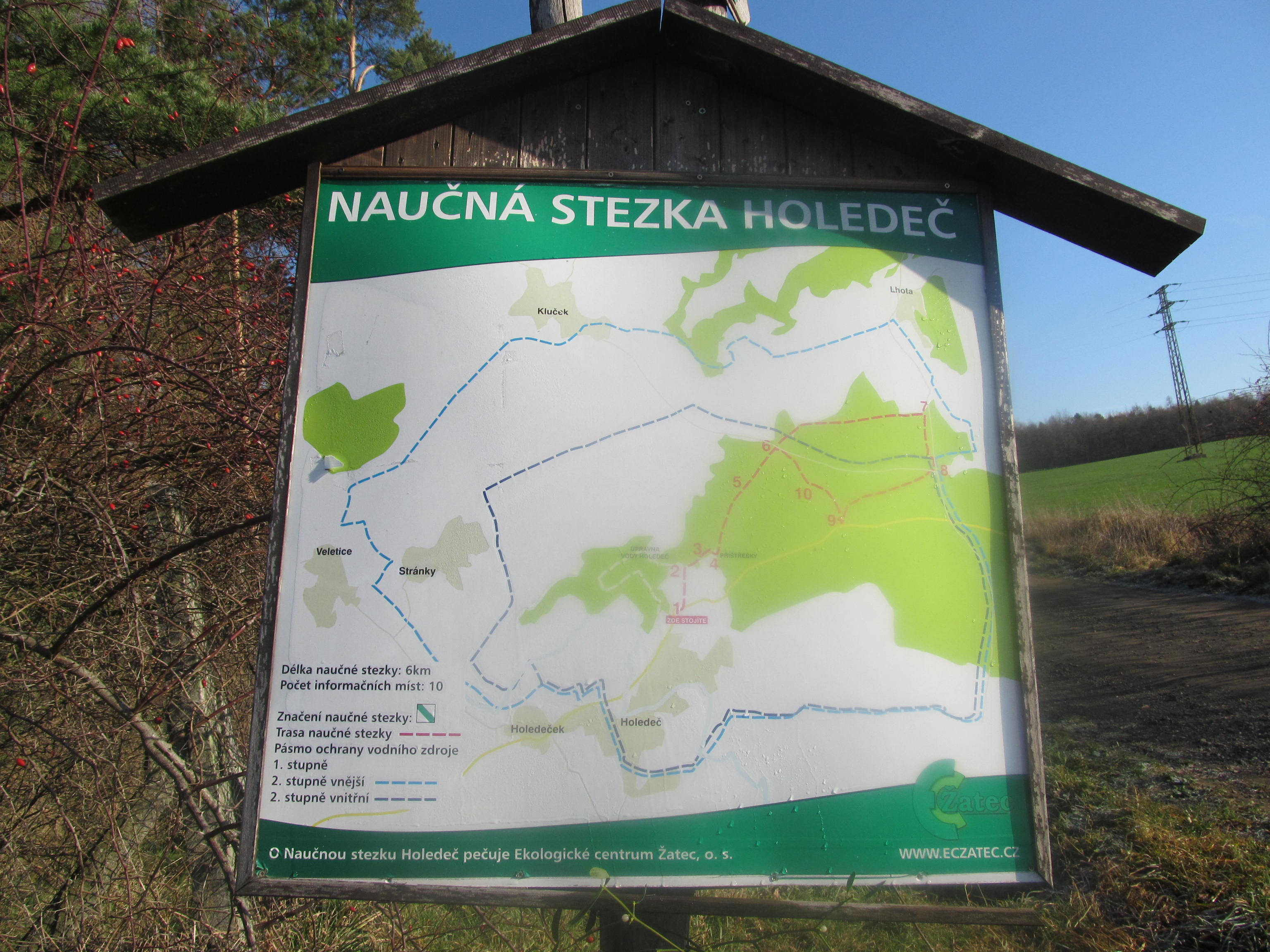 Information table at the start of the educational trail Holedeč